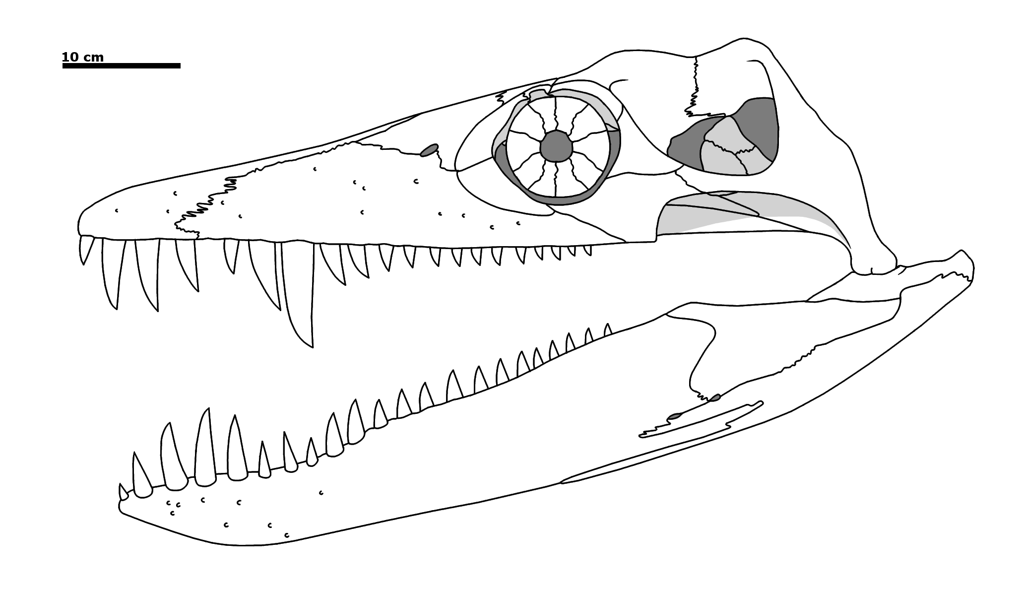 Acostasaurus cranial reconstruction